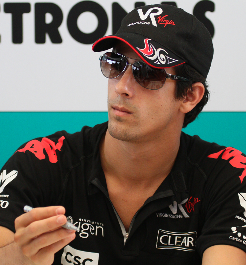 Formula One 2010 Rd.3 Malaysian GP: Lucas Di Grassi (Virgin Racing) at autograph session on Sunday.